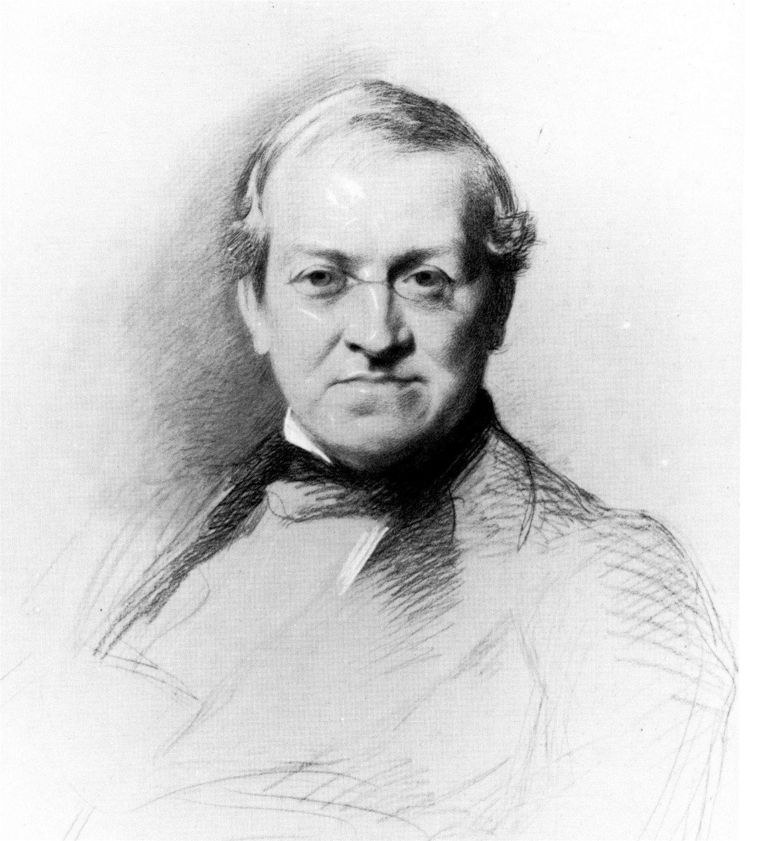 Drawing of Sir Charles Wheatstone, the English scientist and inventor